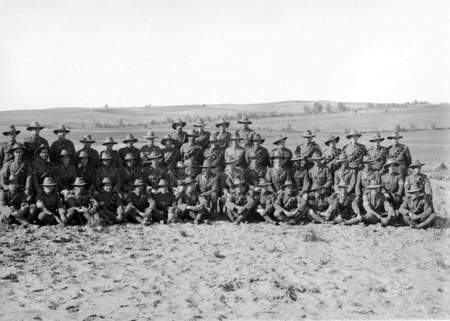 An outdoors group portrait of unidentified Officers, NCOs, and men of the Auckland Regiment, who enlisted in 1914.